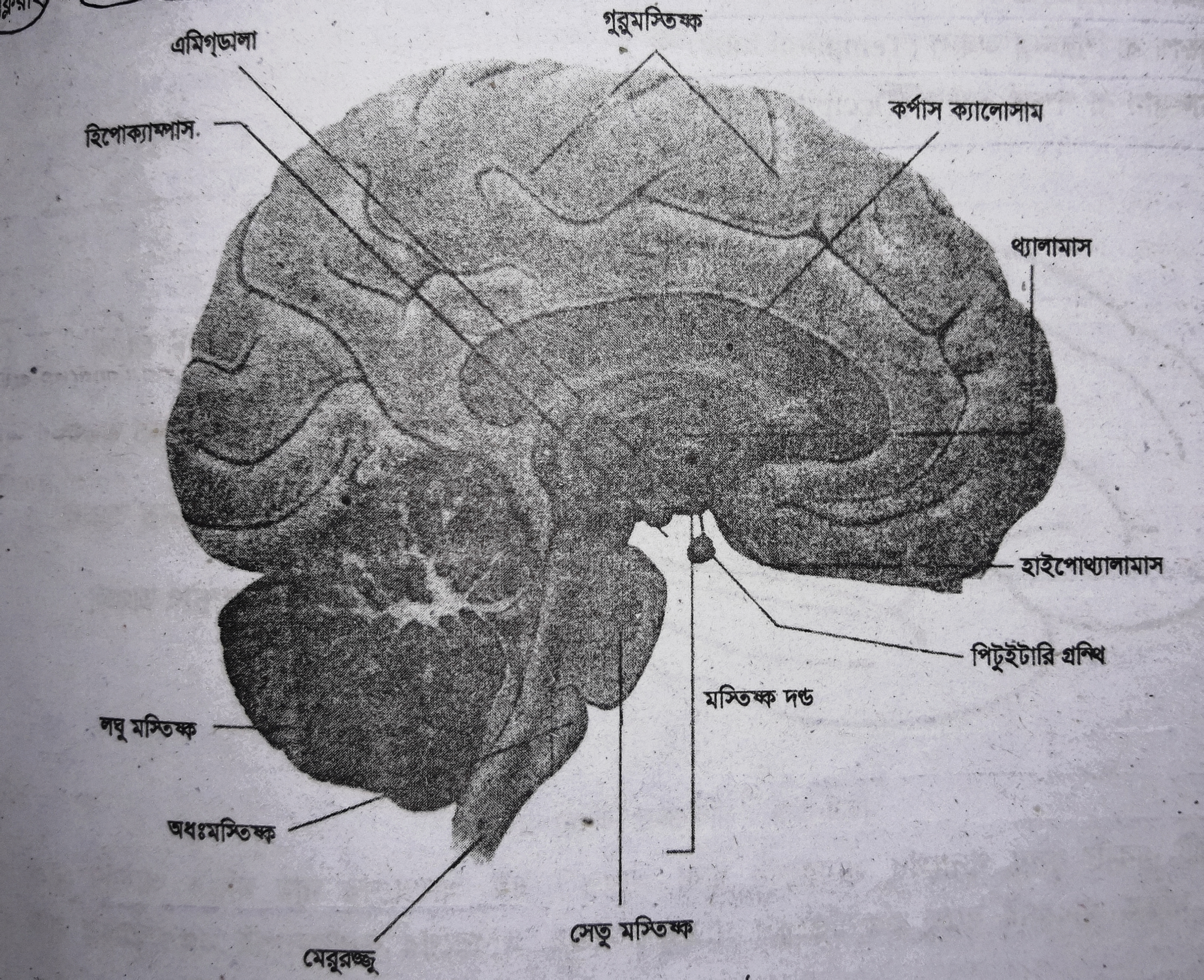 Brain part in Bangla